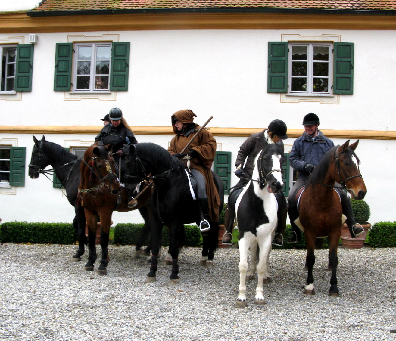 Leonhardifahrt in Bannacker, Augsburg, Bavaria